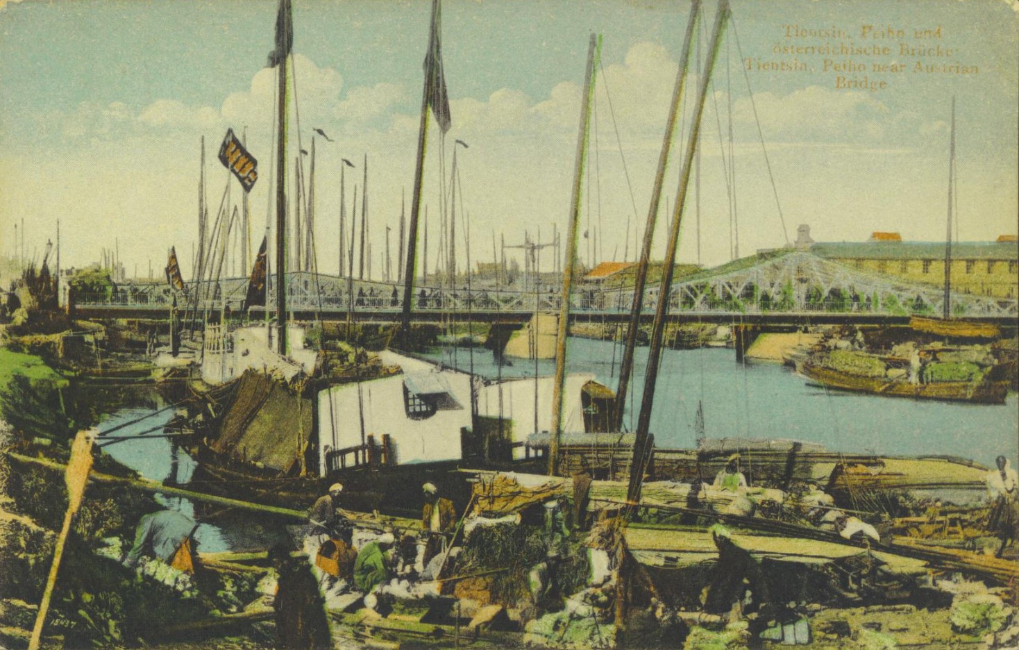 View of the Peiho River and the bridge of the Austro-Hungarian Concession. Postcard issued c. 1910.